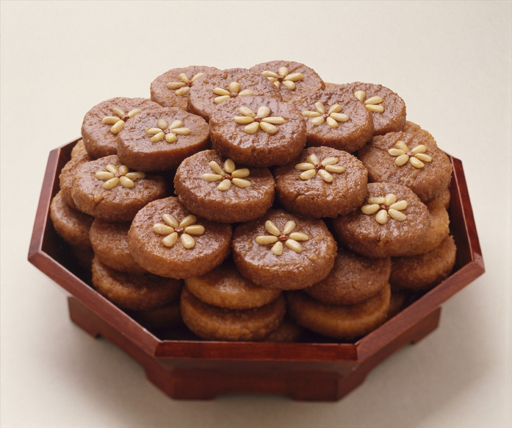 Deep-fried cookies made with flour, sesame oil, Korean liquor, and honey.